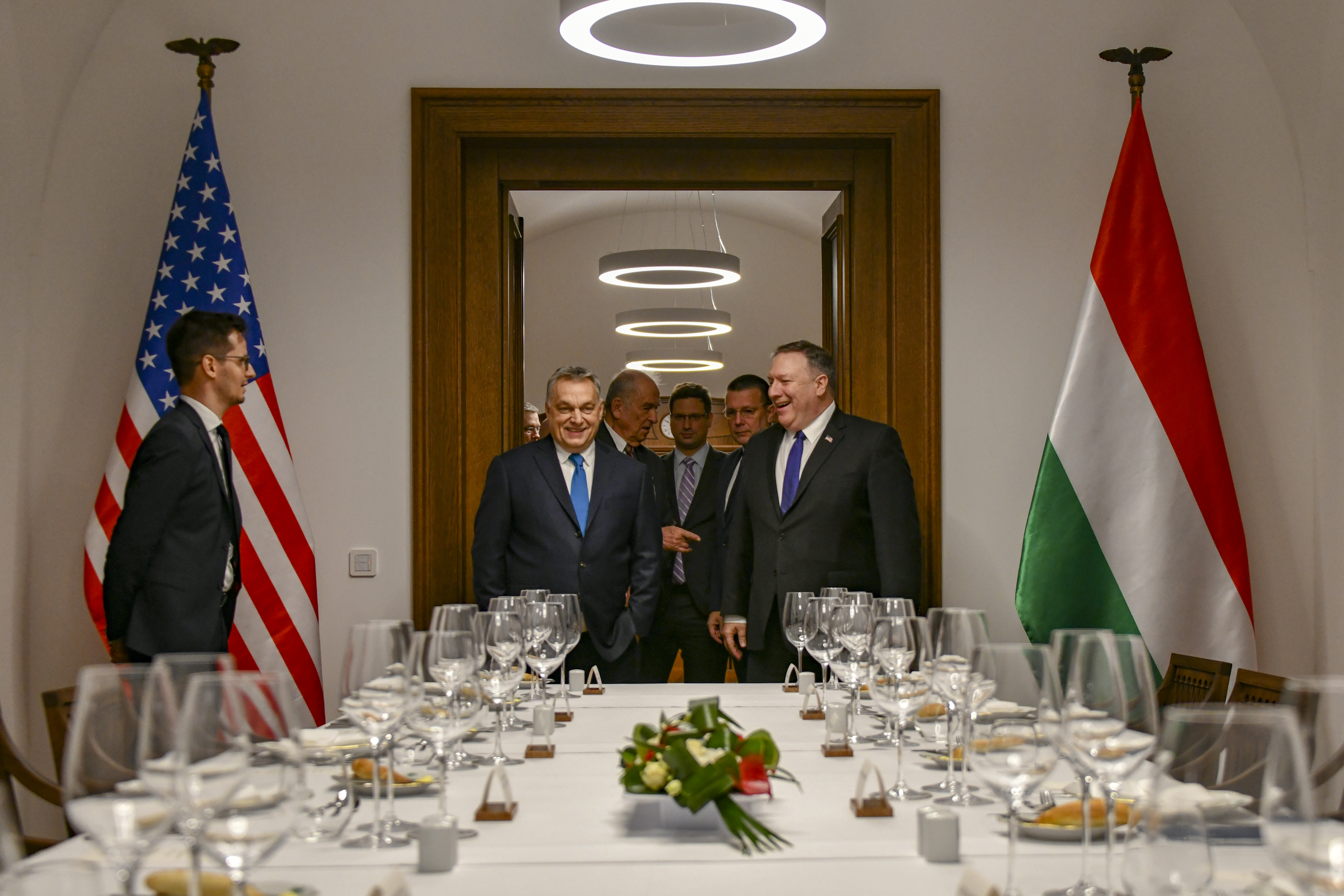 U.S. Secretary of State Michael R. Pompeo meets with Hungarian Prime Minister Viktor Orban in Budapest, Hungary on February 11, 2019. [State Department photo by Ron Przysucha/ Public Domain]